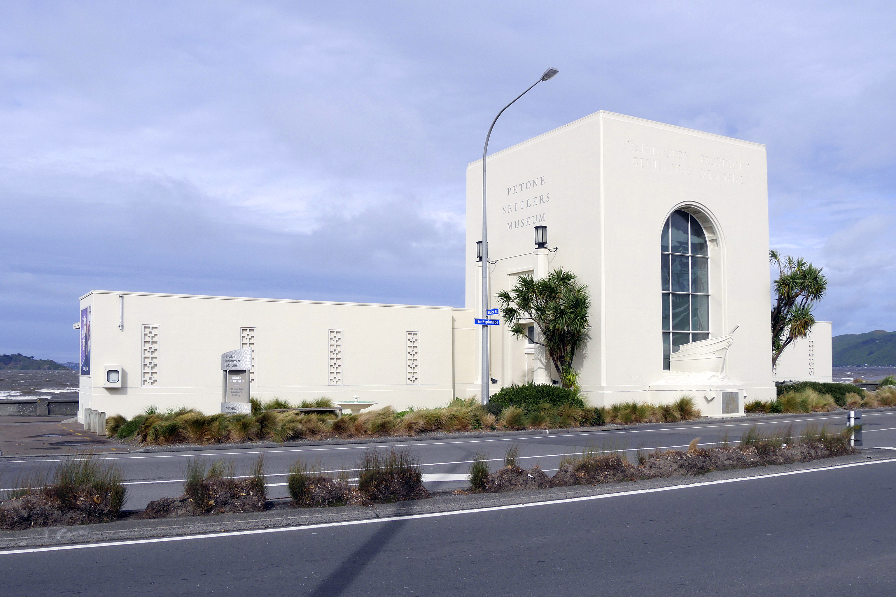 Petone Settlers Museum, Petone, Hutt City (Lower Hutt), Wellington Region, North Island, New Zealand